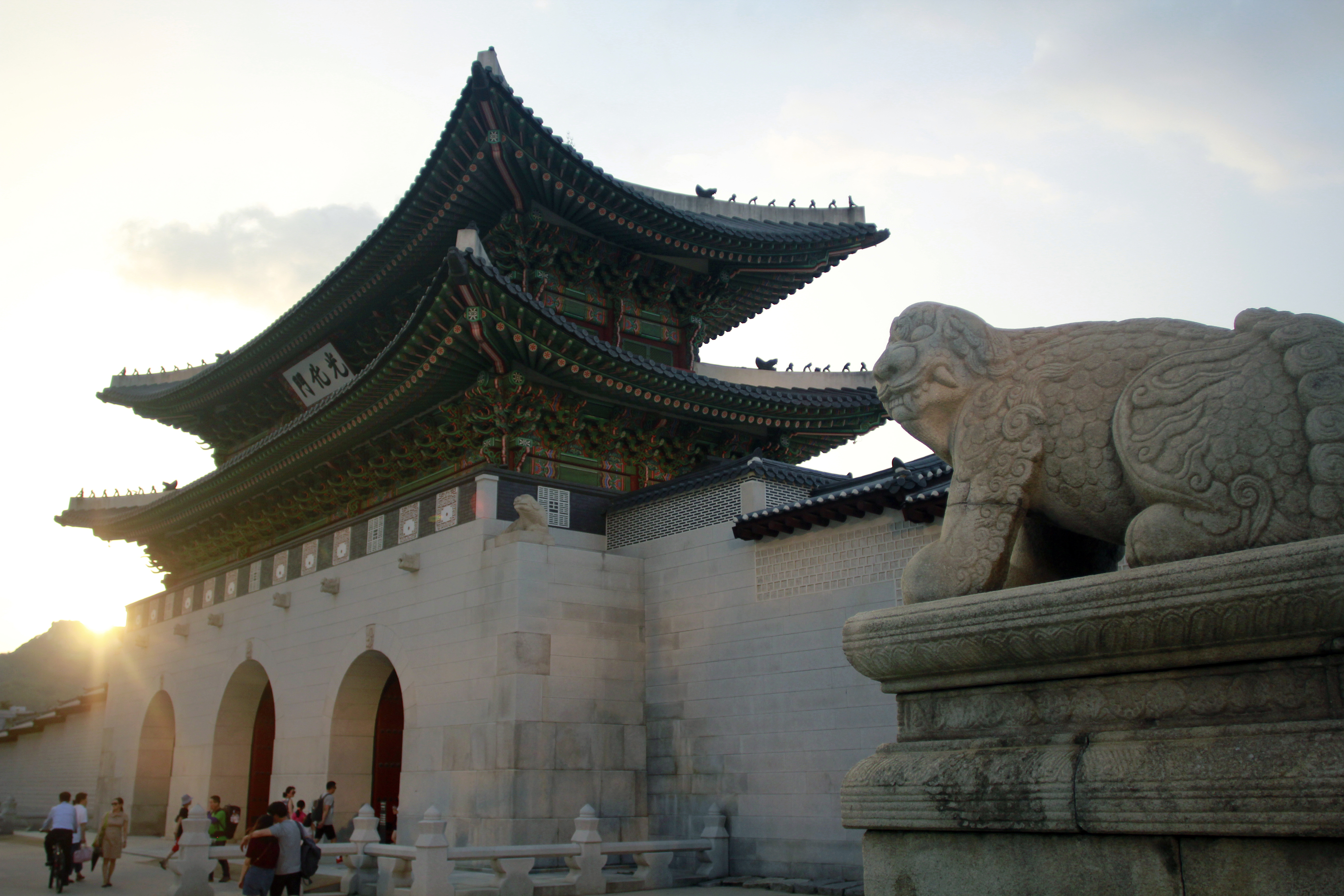 Gwanghwamun - the main gate of Gyeongbokgung Palace